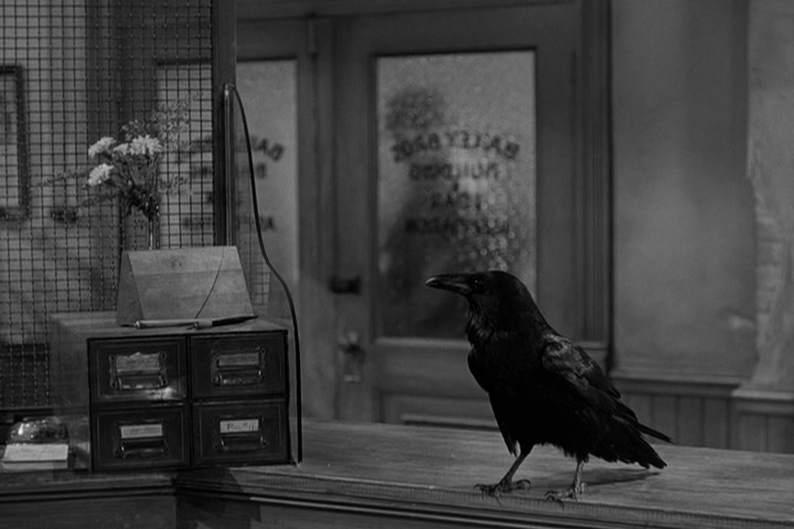 Screenshot from It's a Wonderful Life showing Jimmy the raven in the Building & Loan office.